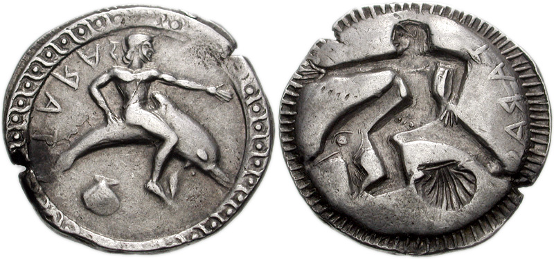 Calabria (ancient Calabria, nowdays Puglia), Tarentum. Circa 510-500 BC. AR Nomos (25mm, 8.02 g, 12h). TARAS (retrograde), Phalanthos, naked, with arm outstretched, seated on dolphin right; pecten below TARAS (retrograde and in relief), incuse of obverse type. Fischer-Bossert 16 (V7/R12); Vlasto 68 (same dies); Gorini 3 (same dies); HN Italy 826; Franke & Hirmer 294 (same dies). Archaic style.